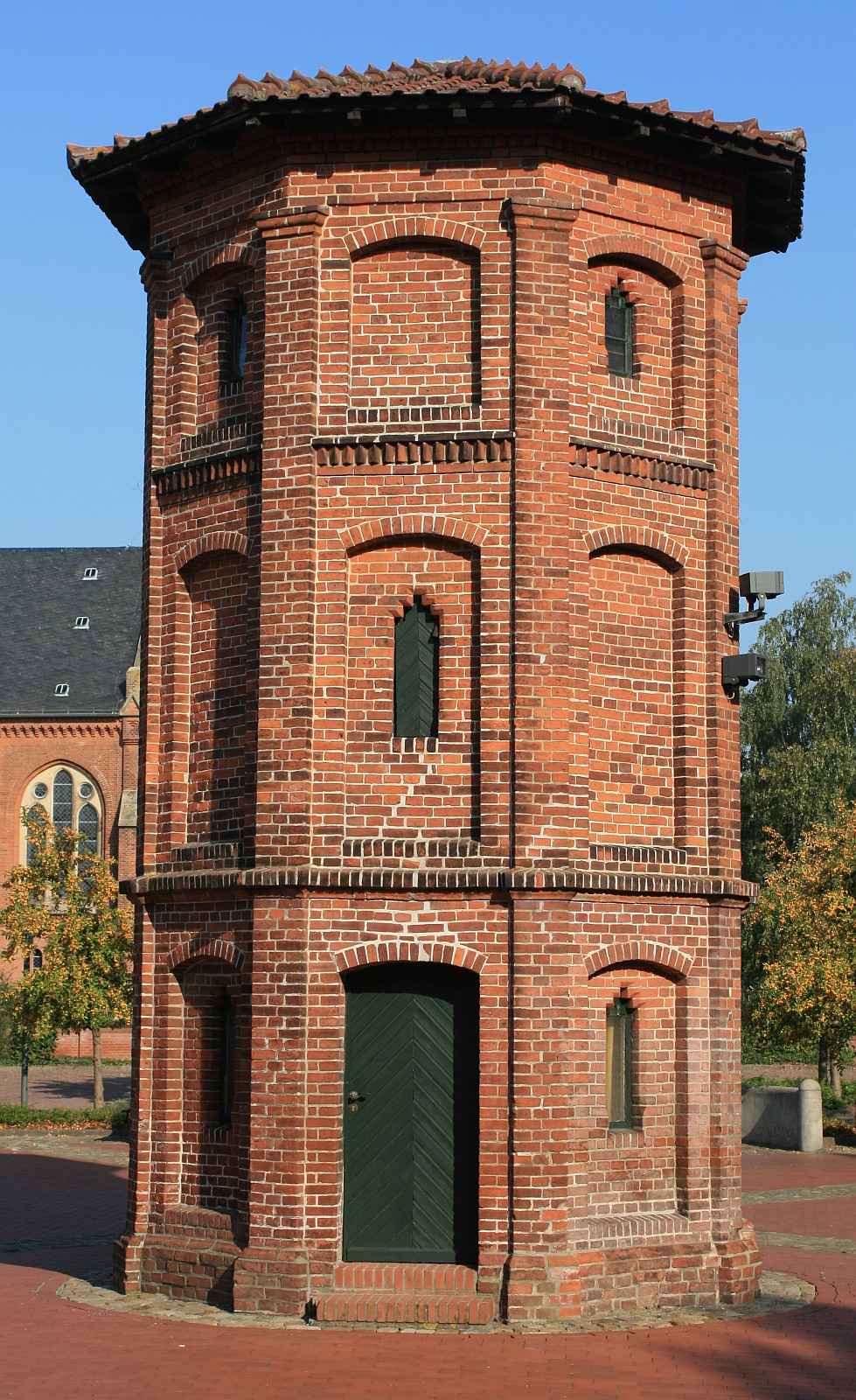 Pigeon-tower in Thedinghausen, Germany